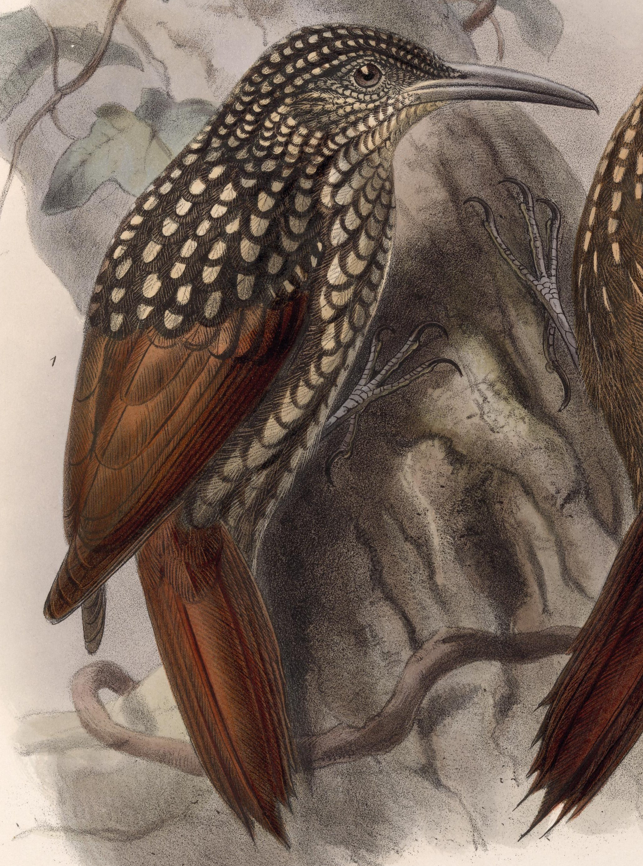 « Dendrornis lacrymosa » = Xiphorhynchus lachrymosus (Black-striped Woodcreeper)